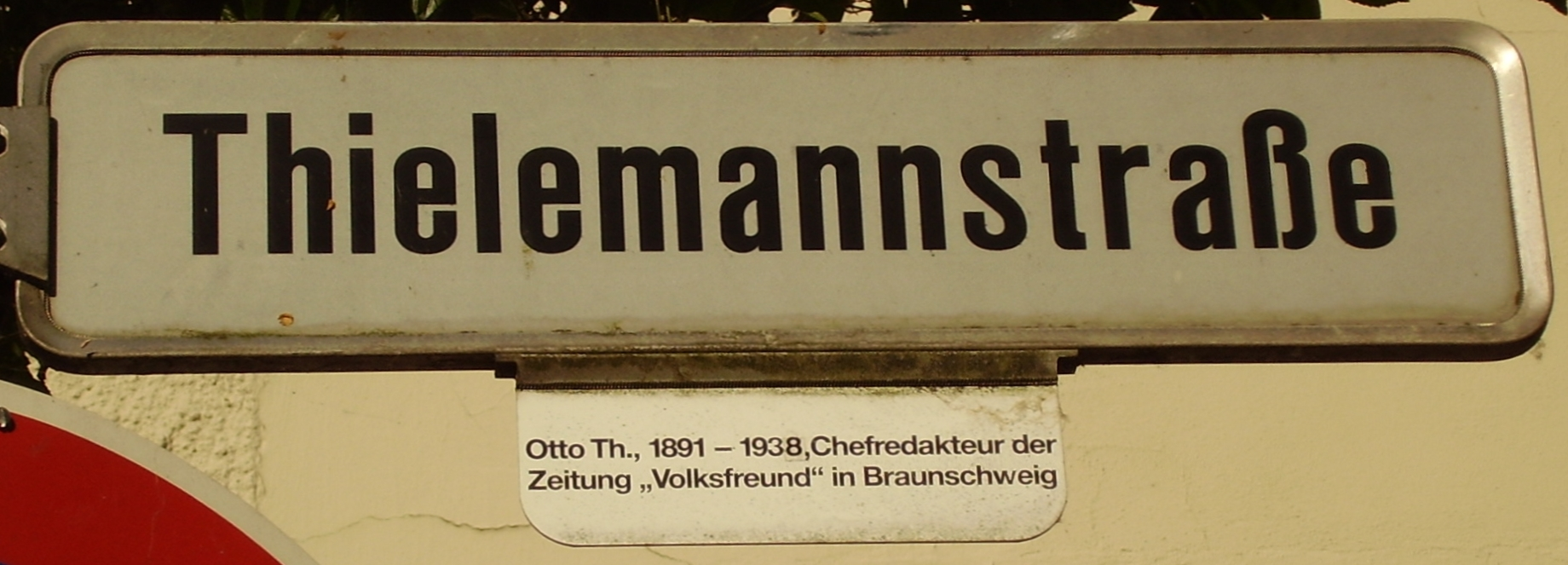 Braunschweig (City) — Thielemannstr. — Street sign